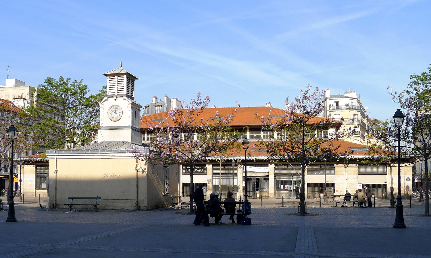 Aligre place - Paris